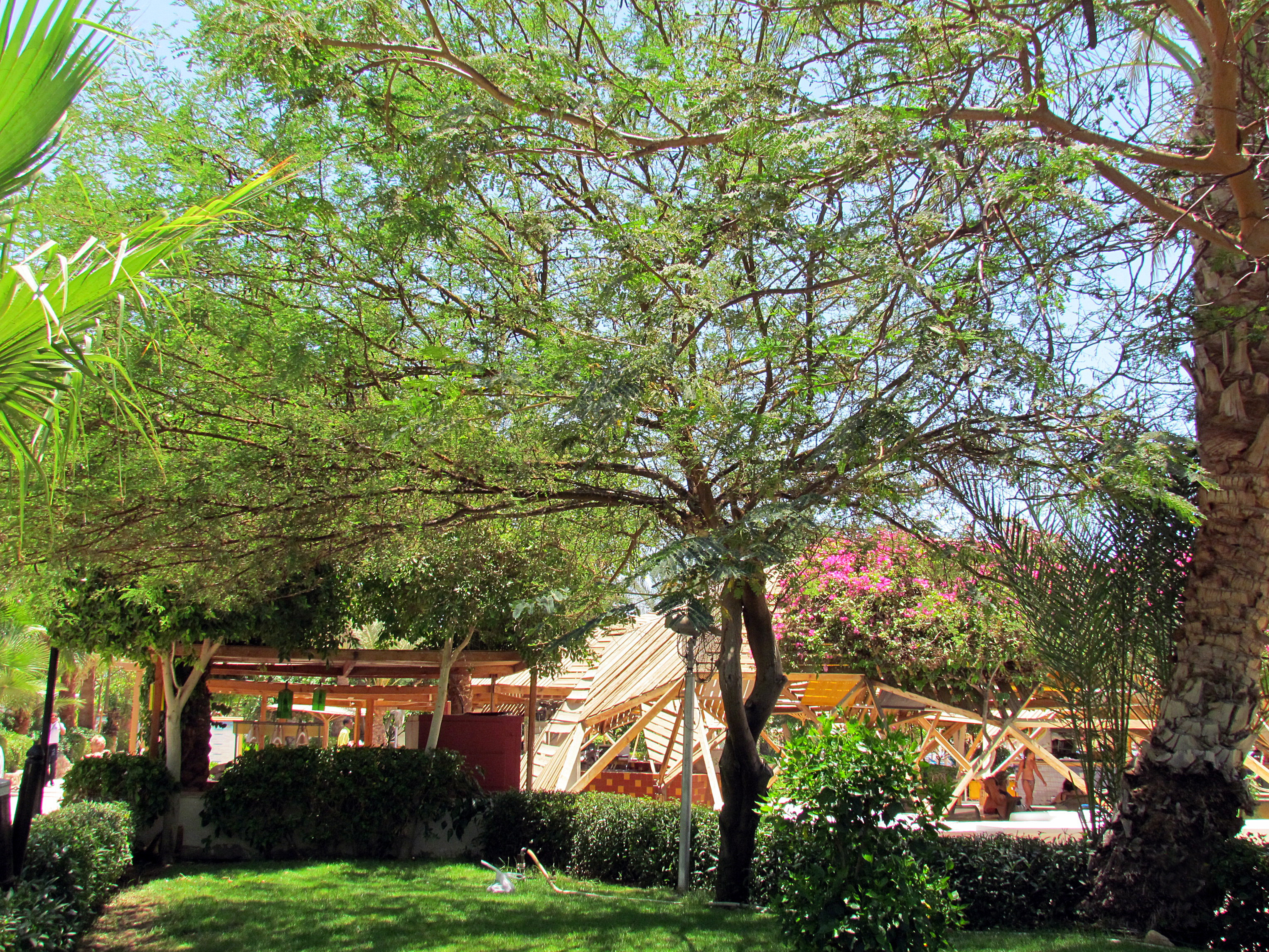 Vachellia farnesiana tree in Sharm el-Sheikh